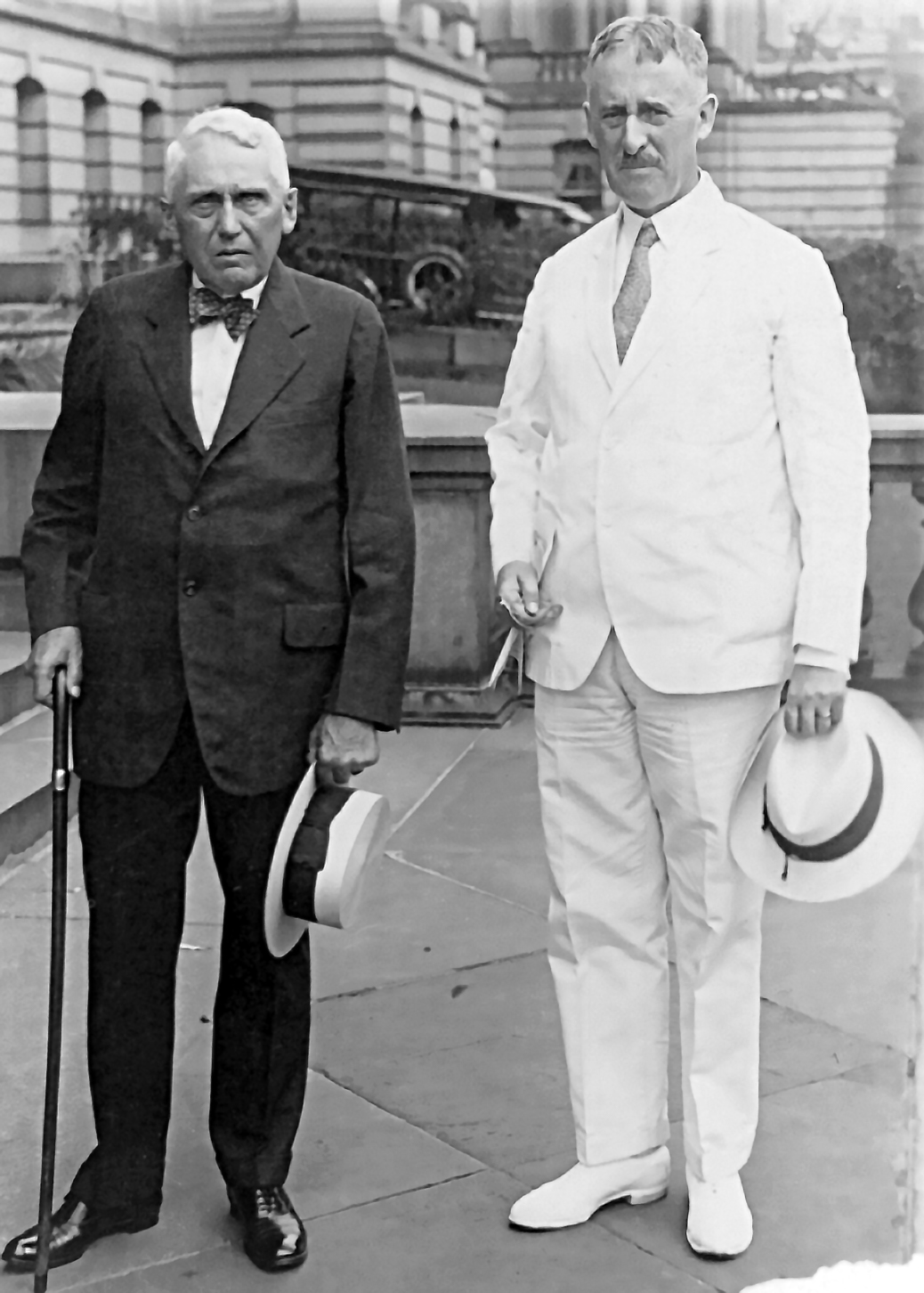 Secretary of State Henry L. Stimson (right) and former Secretary Frank B. Kellogg (left) leaving the State Department 1929 July 25. Library Notes: In album: Washington, D.C., Jan. 1927 to Feb. 1930, v. 3, Herbert E. French, National Photo Company. National Photo Company Collection (Library of Congress). Reproduction Number: LC-USZ62-54341 (b&w film copy neg.) Call Number: LOT 12299, v. 3 [item] [P&P].